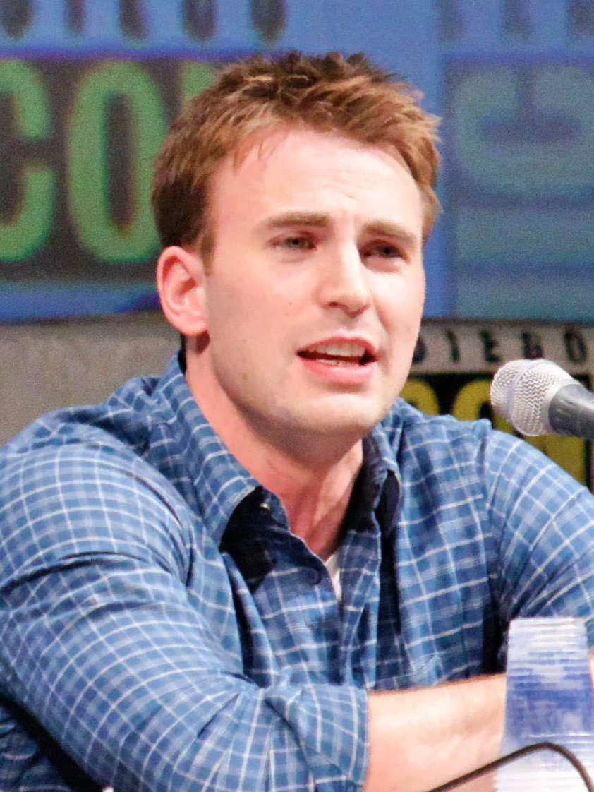 Captain America: The First Avenger panel from the 2010 San Diego Comic-Con International with Kevin Feige, Joe Johnston, Chris Evans and Hugo Weaving